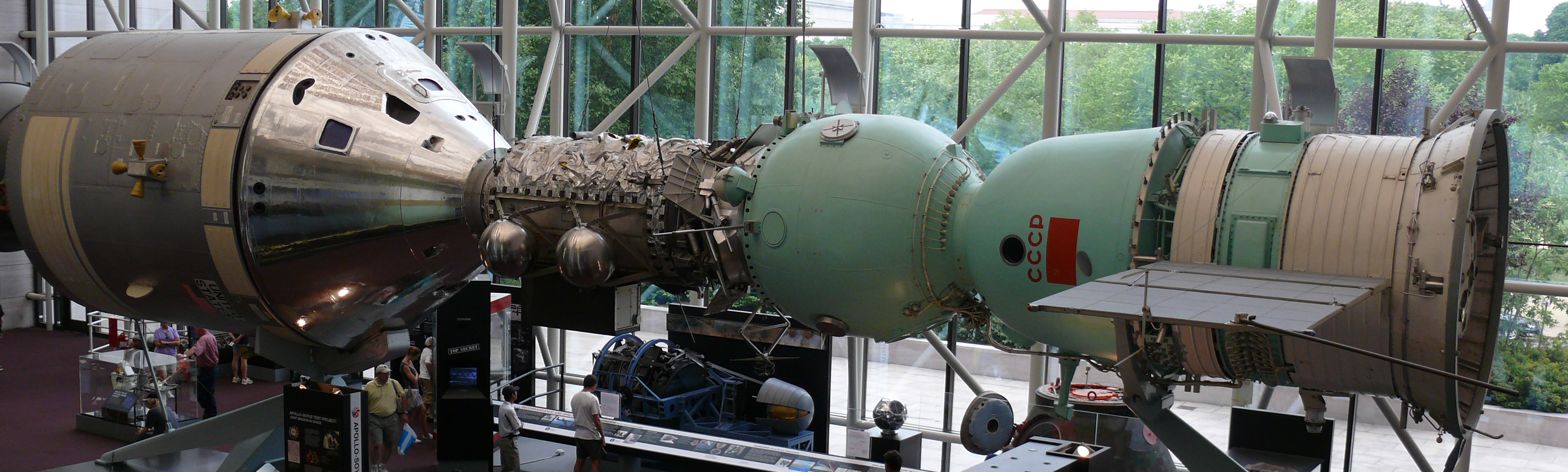 Apollo-Soyuz combination in the National Air and Space Museum, Washington DC The Apollo-Soyuz Test Project (ASTP) was the first joint flight of the U.S. and Soviet space programs. The mission took place in July 1975. For the United States of America, it was the last Apollo flight, as well as the last manned space launch until the flight of the first Space Shuttle in April 1981.